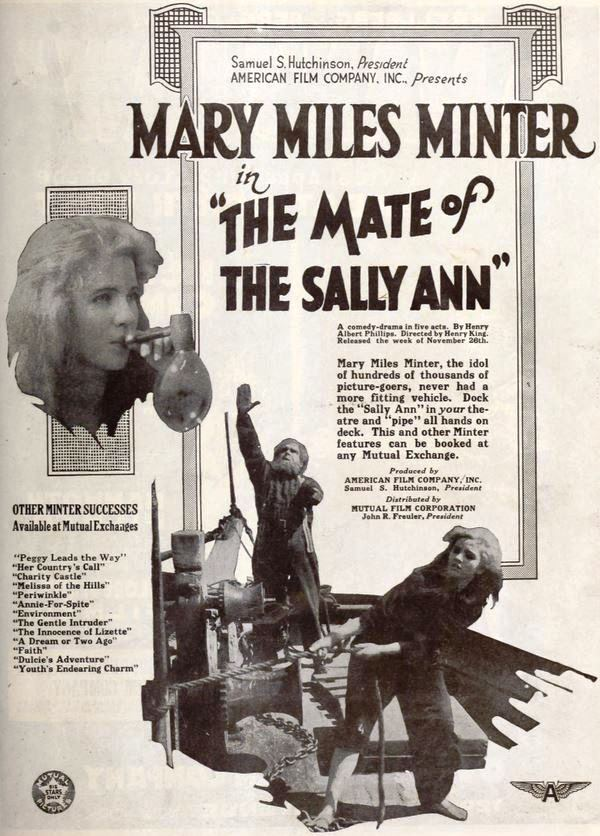 Advertisement for the American comedy drama film The Mate of the Sally Ann (1917) with Mary Miles Minter and George Periolat, on page 3 of the December 1, 1917 Exhibitors Herald.